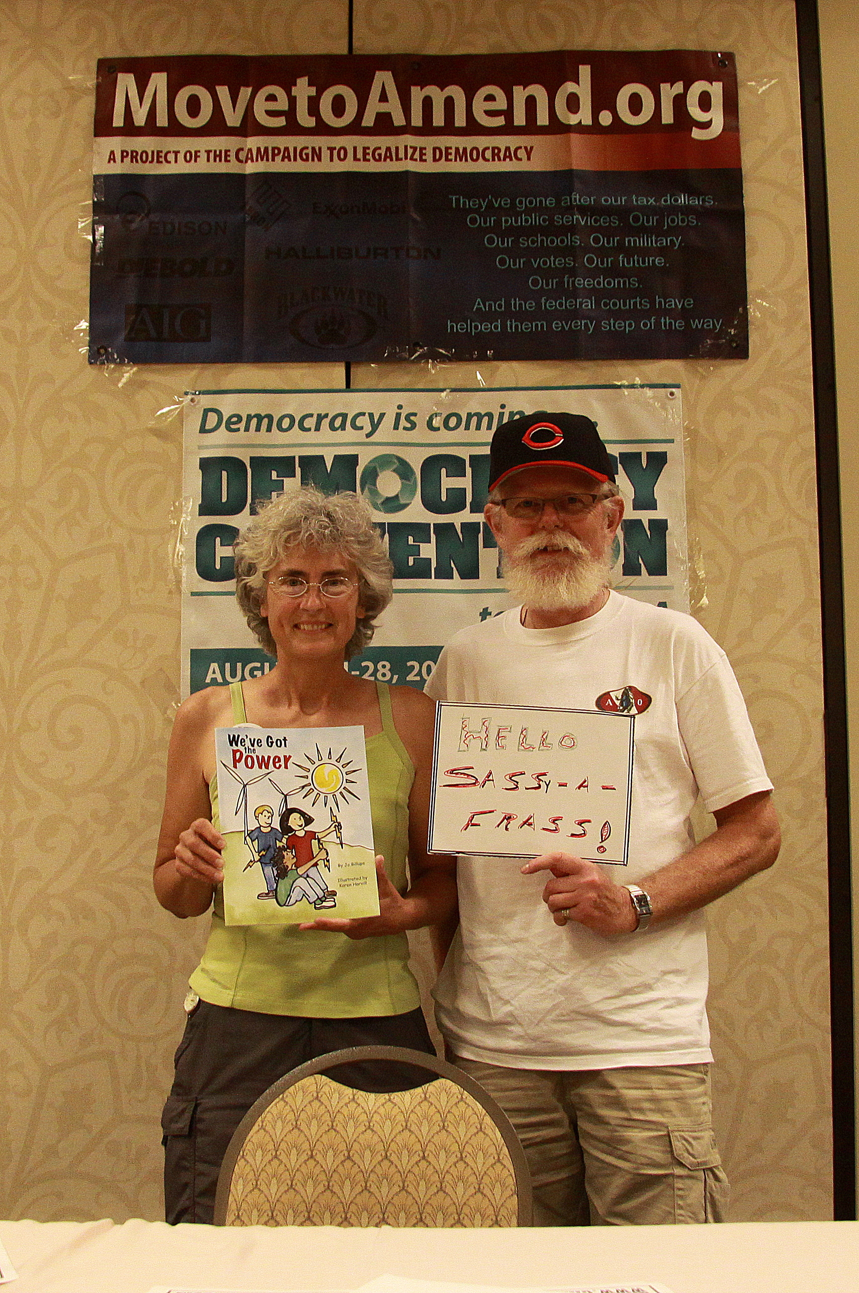 Riki Ott and a friend posing for a photo at the Democracy Convention in Madison, Wisconsin.